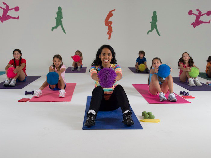 Screen shot of FMKidz DVD "Play"